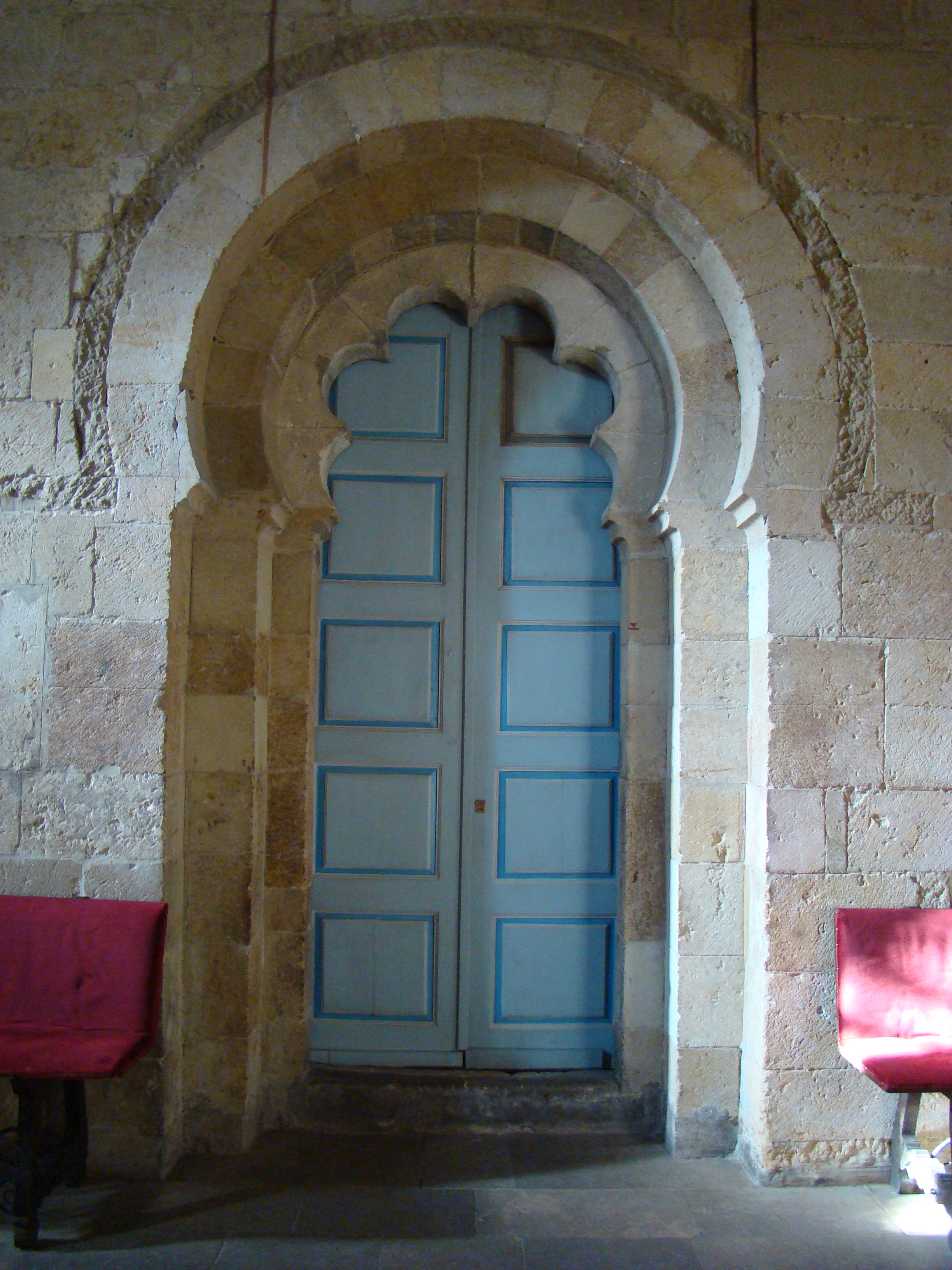 Romanesque basilica of San Isidoro in León, Spain. Romanesque gate divided into lobes which is located at the feet of the church. Nowadays it is closed but in romanic times it lead to the pantheon.